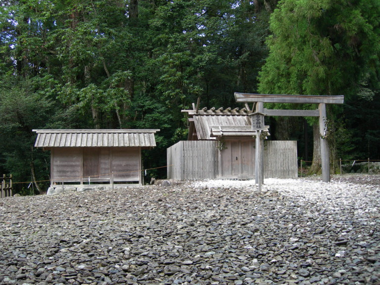 Wakamiya-jinja is a shokansha of the Betsugu Takihara-no-miya Sanctuary of Kotaijingu(Naiku) at Taiki town Mie Prf. Japan.